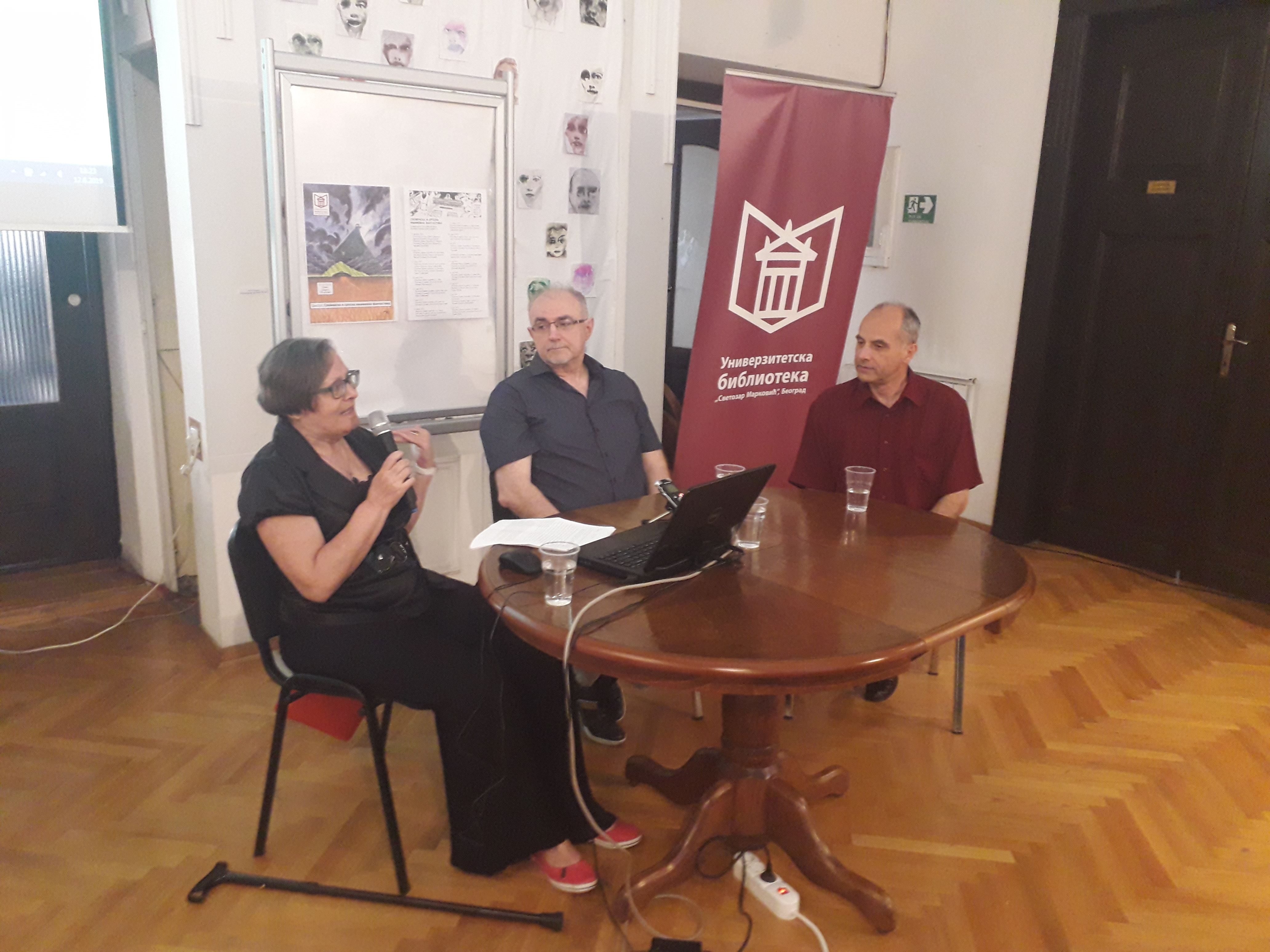 Slavic and Serbian fantasy cycle, University library, Belgrade, Serbia. From right to left: Dejan Ajdačić, Goran Skrobonja i Ljiljana Pešikan Ljuštanović. Srpski (latinica): Ciklus "Slovenska i srpska fantastika", Univerzitetska biblioteka, Beograd, Srbija. Zdesna nalevo: Dejan Ajdačić, Goran Skrobonja, Ljiljana Pešikan Ljuštanović.